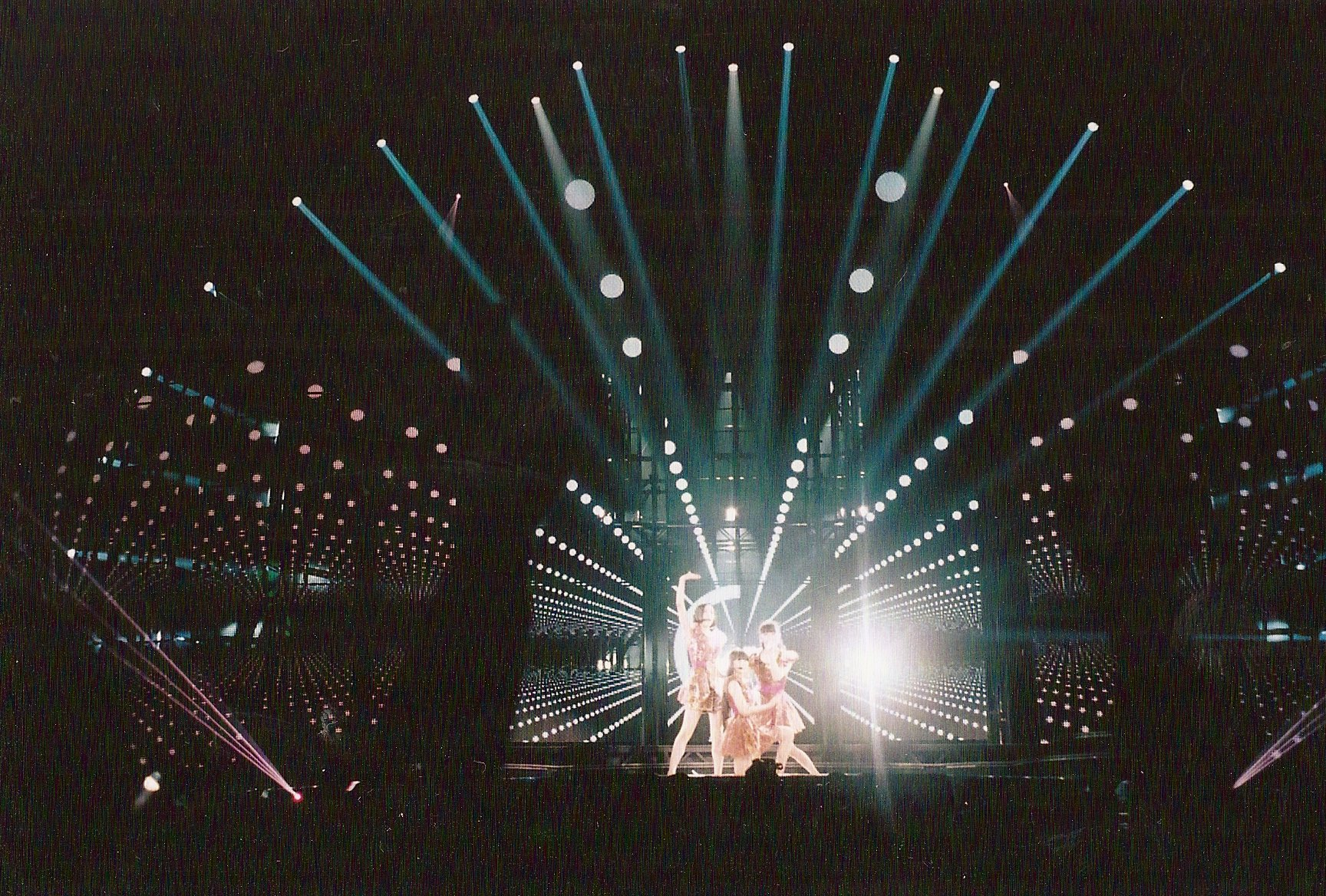 Perfume performing Polyrhythm during 4th Tour in Dome LEVEL3, Tokyo Dome, December 25 2013.